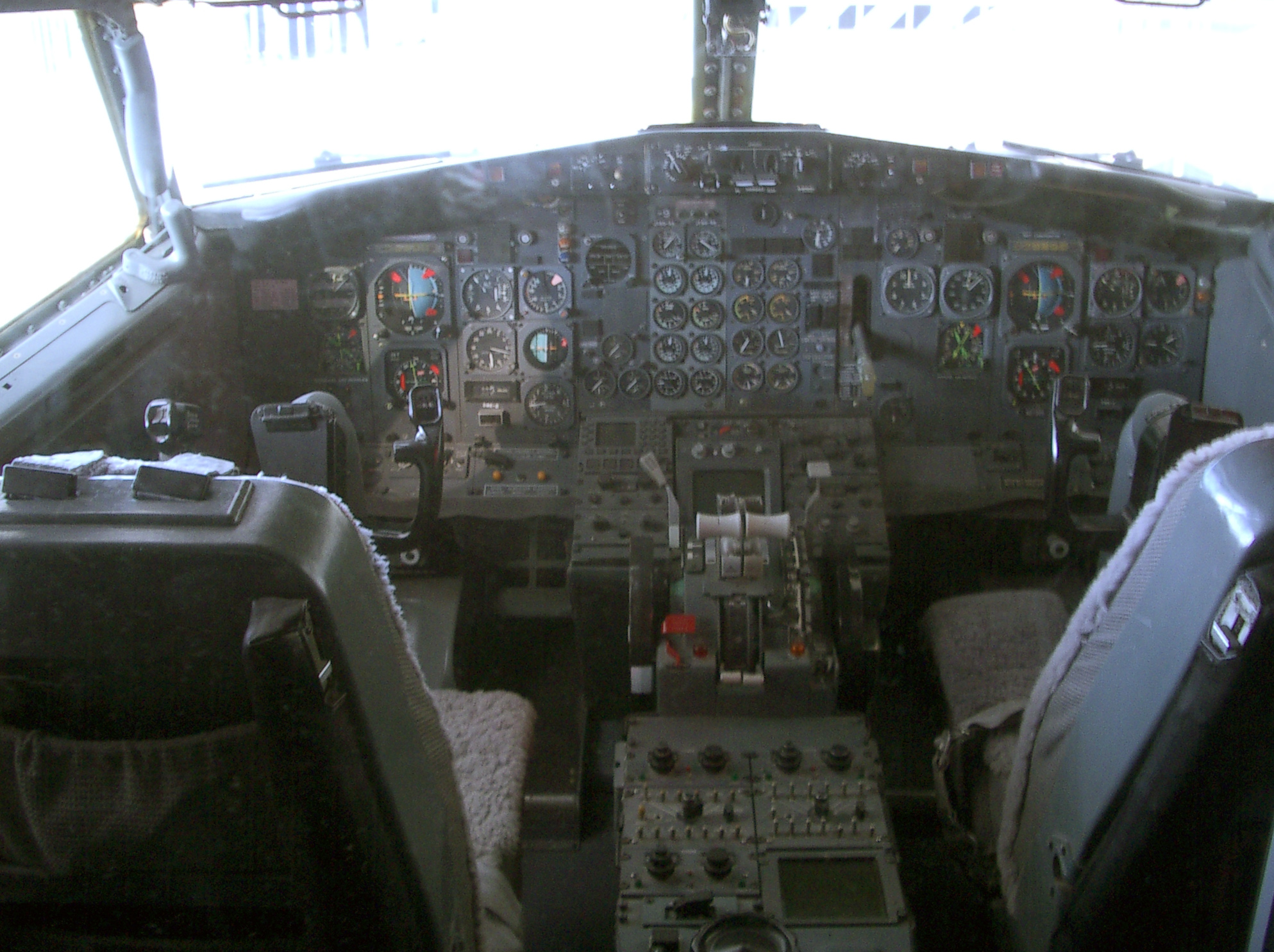 Cockpit of a Boeing 737 airliner on display at the Museum of Flight